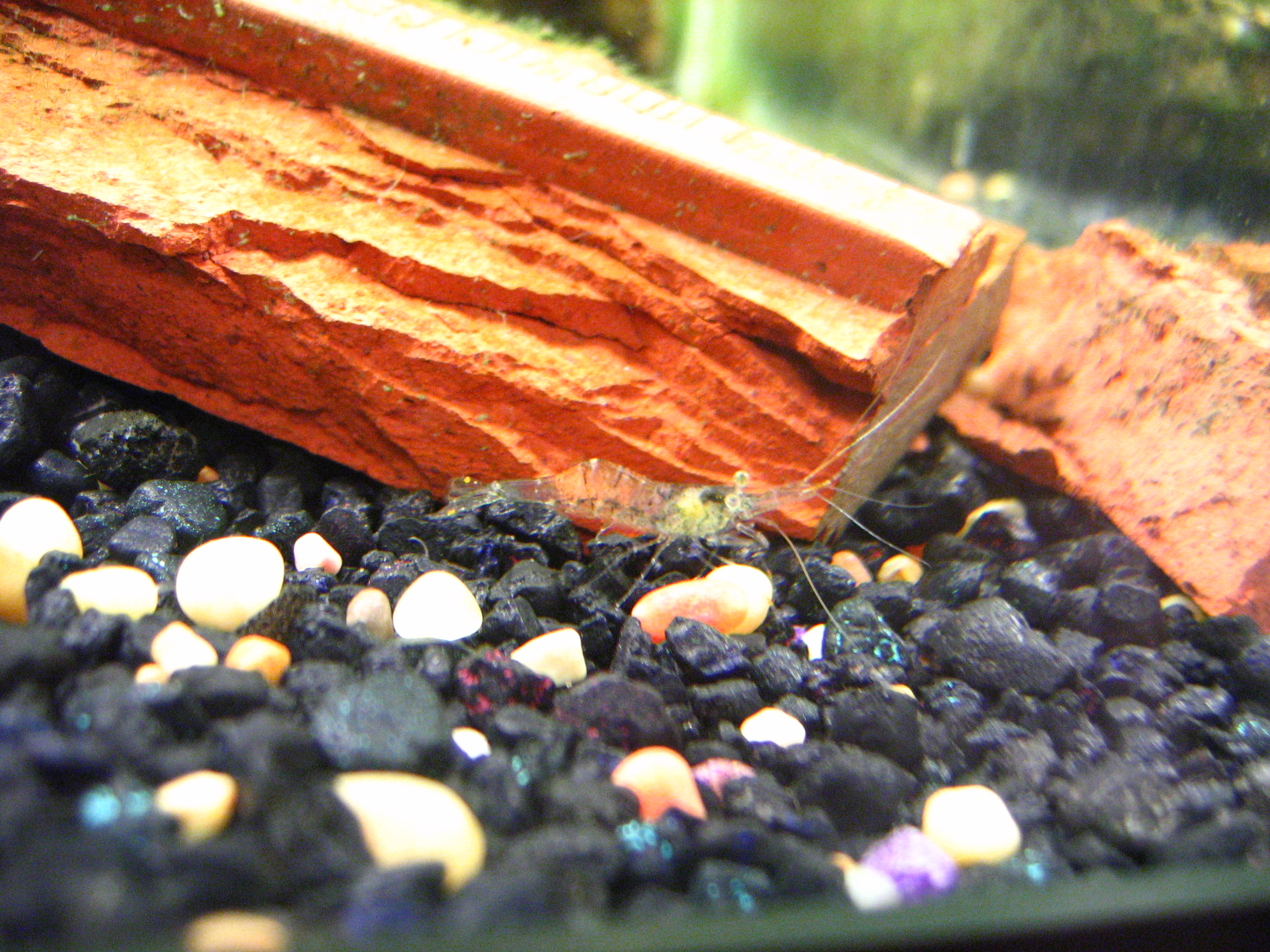 Palaemonetes sp. in the home aquarium. This individual is approximately 1" long.